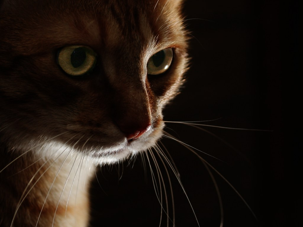 Low-key cat